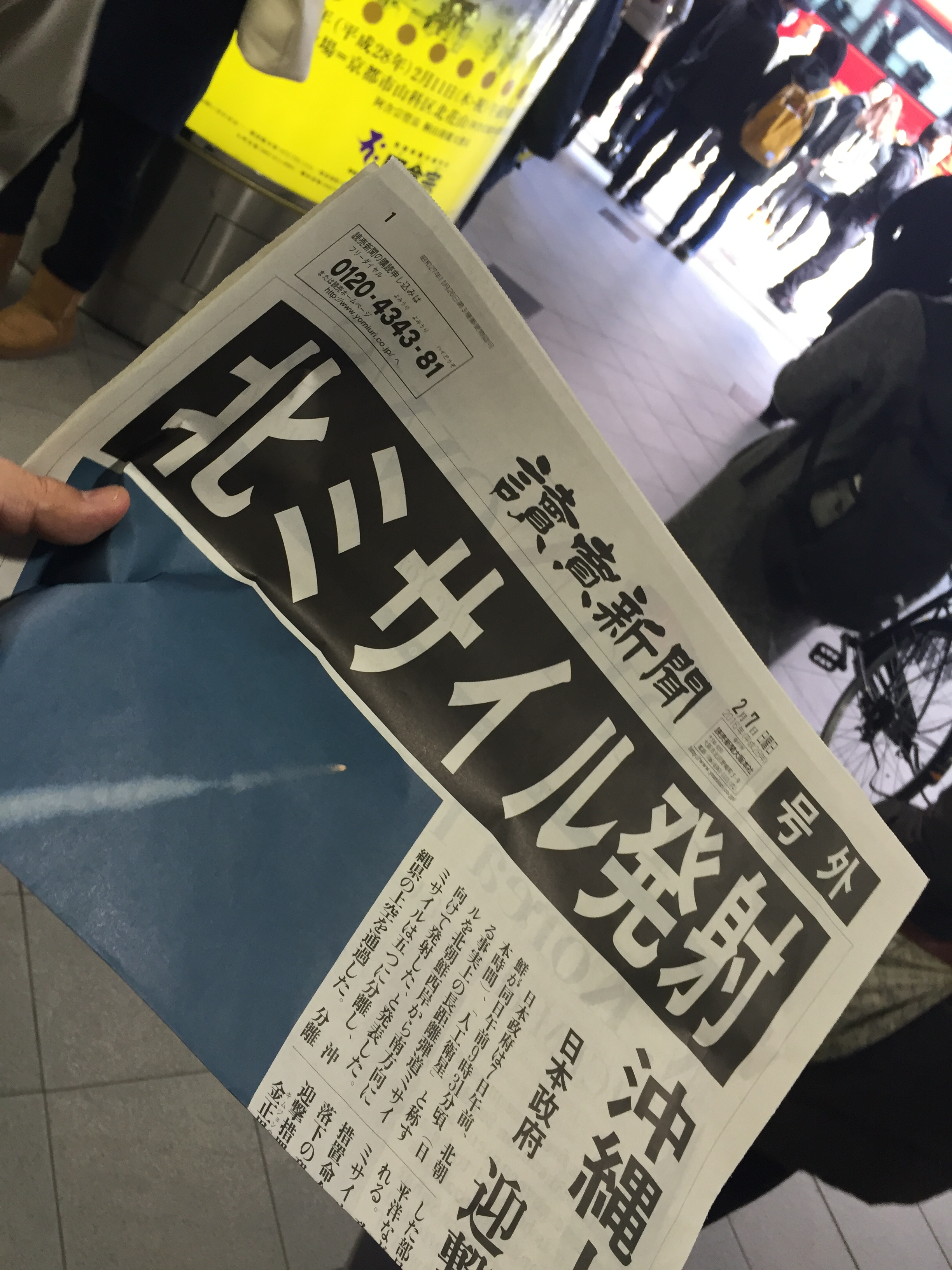 Gougai (Extra issue of newspaper) of missile of PRK at JR Osaka station